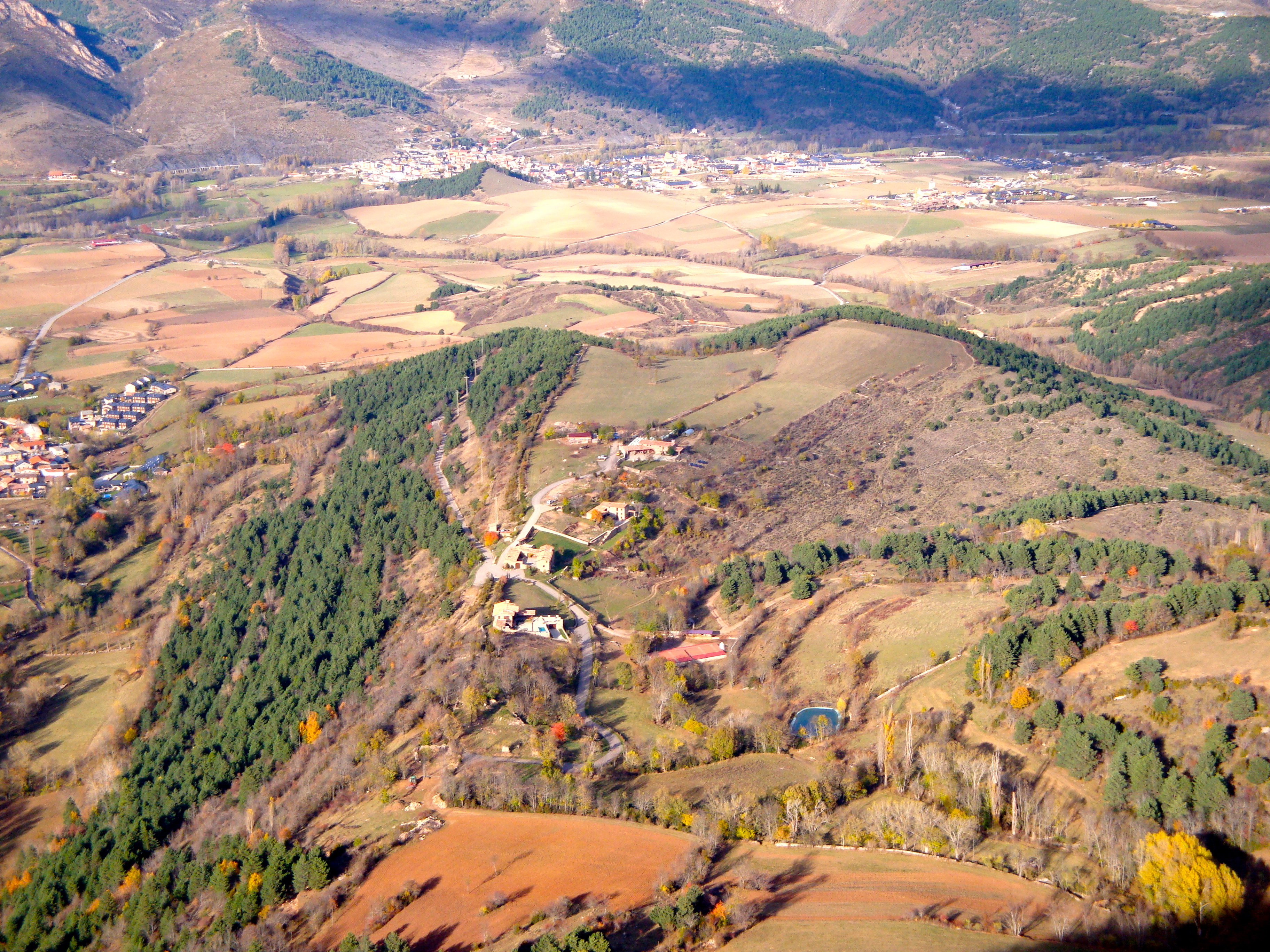 The village of Nèfol